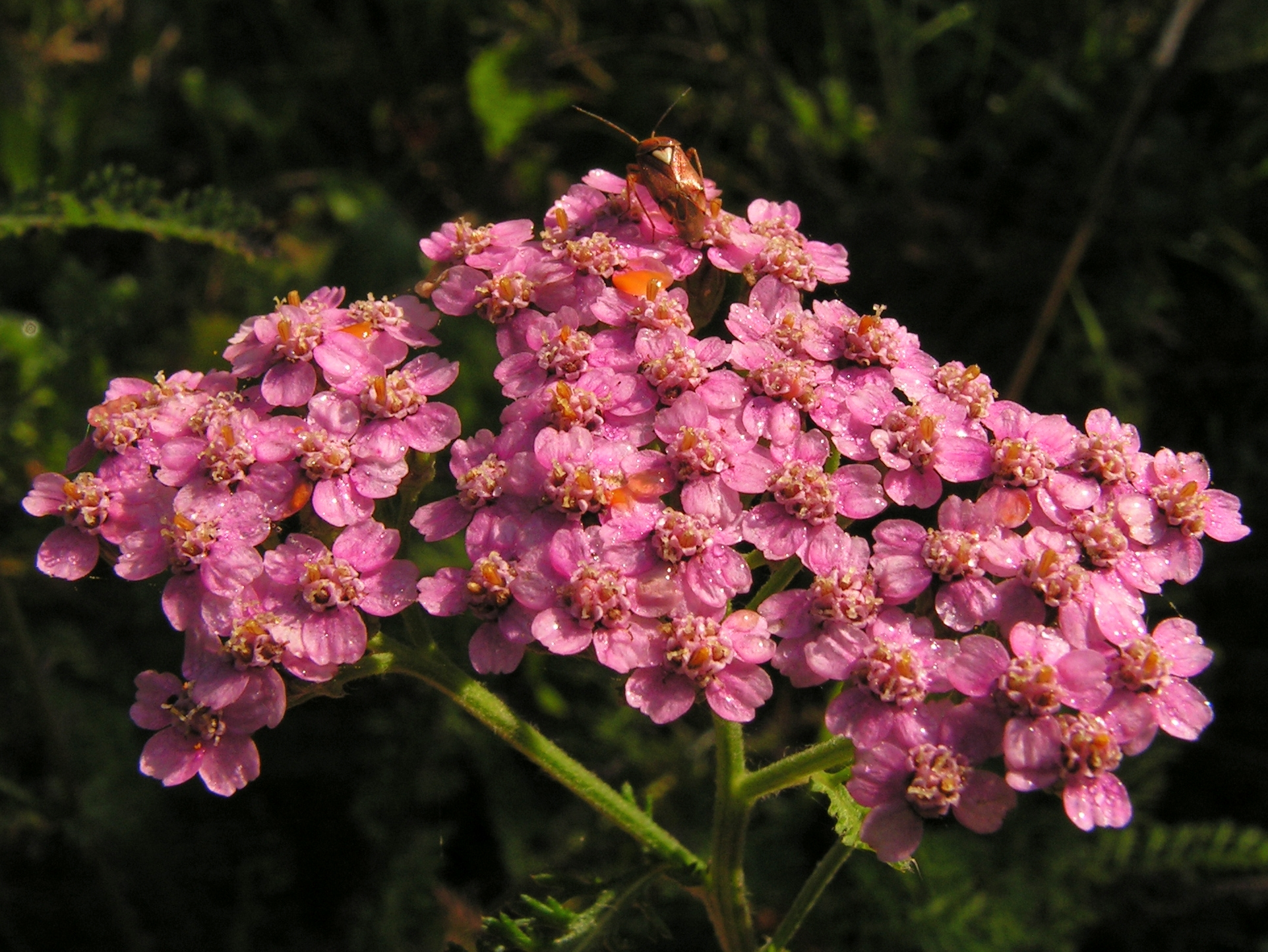 The inflorescences of cultivated Achillea millefolium, pink cultivar. Moscow region, Russia.